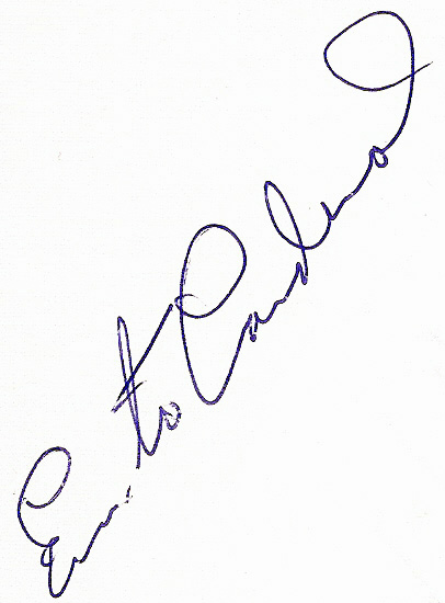 Autograph from Ernesto Cardenal (2012)